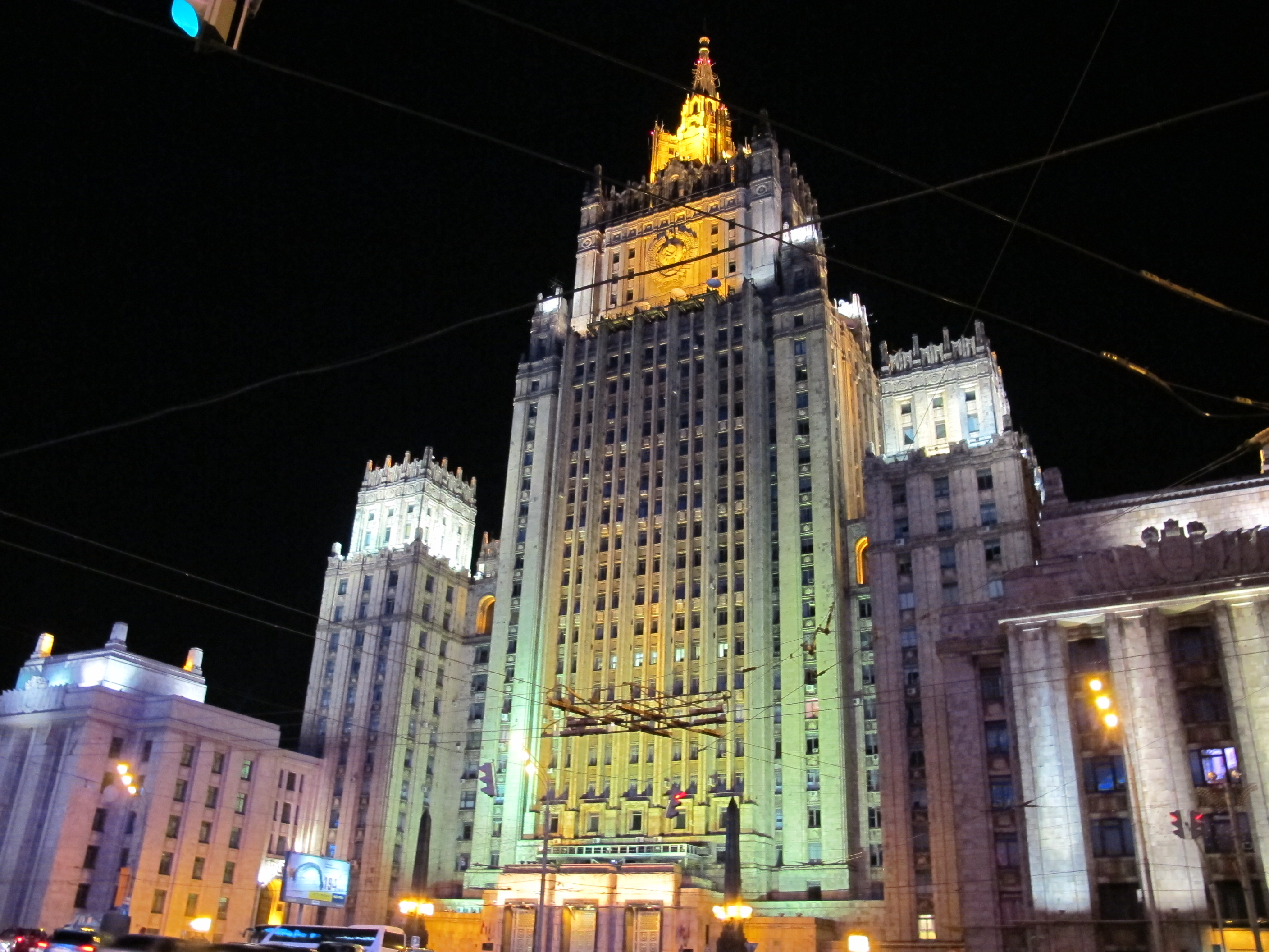 Ministry of Foreign Affairs of Russia building